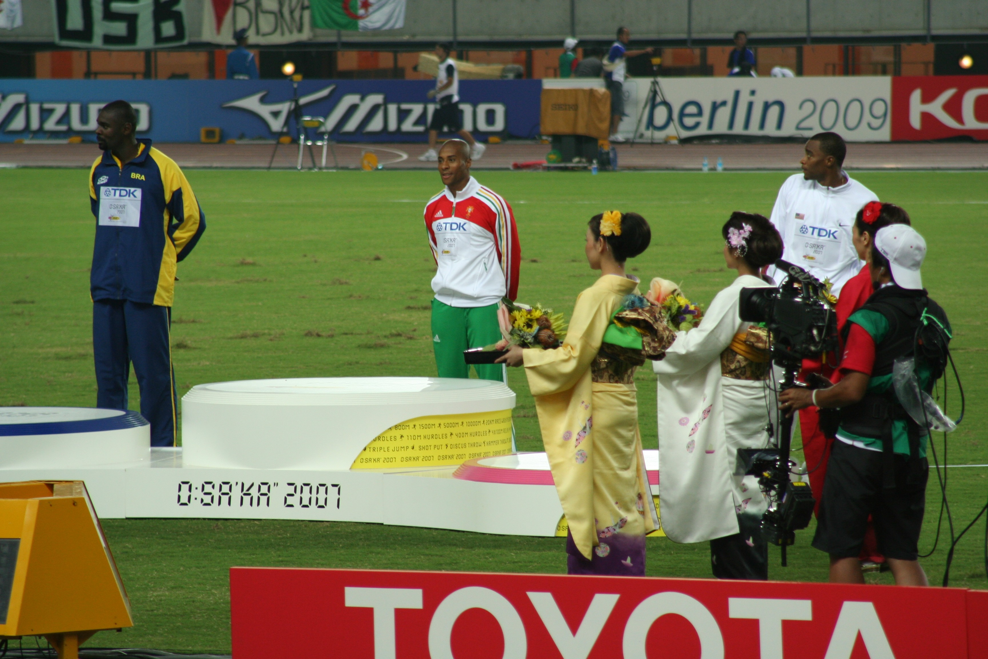 World Athletics Championships 2007 in Osaka - Triple Jump Victory Ceremony with winner Nelson Evora (middle), second Jadel Gregorio (left) and third Walter Davis (right)